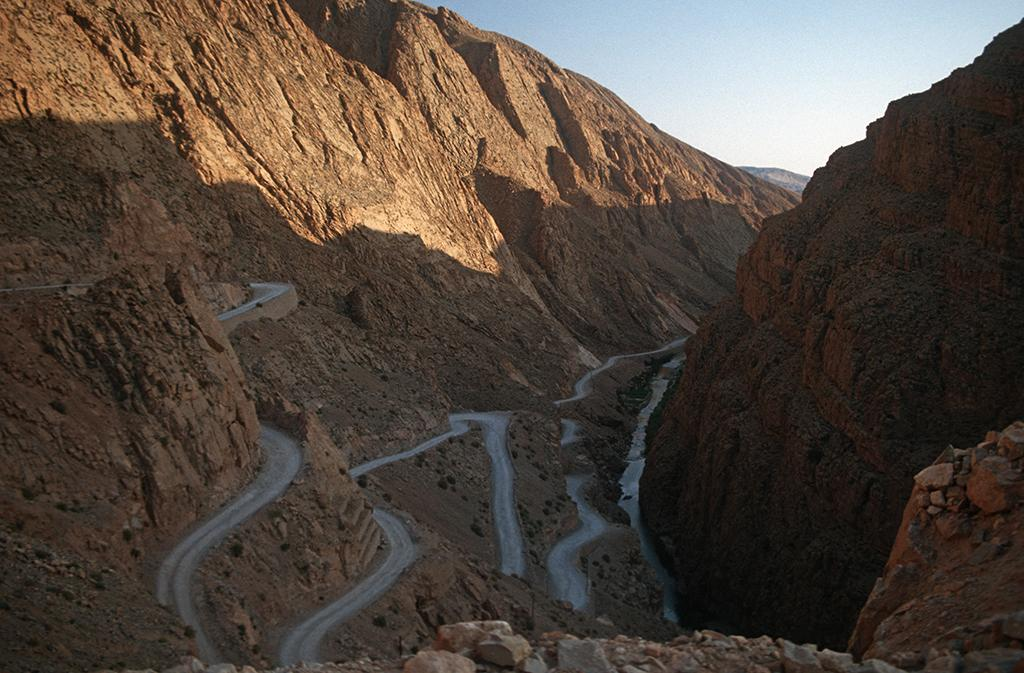 Mountain pass in Dadès Gorges, High Atlas, Morocco